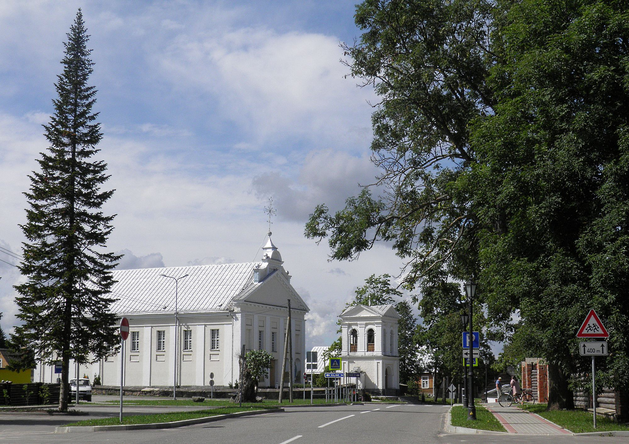 Bebrene, Latvia